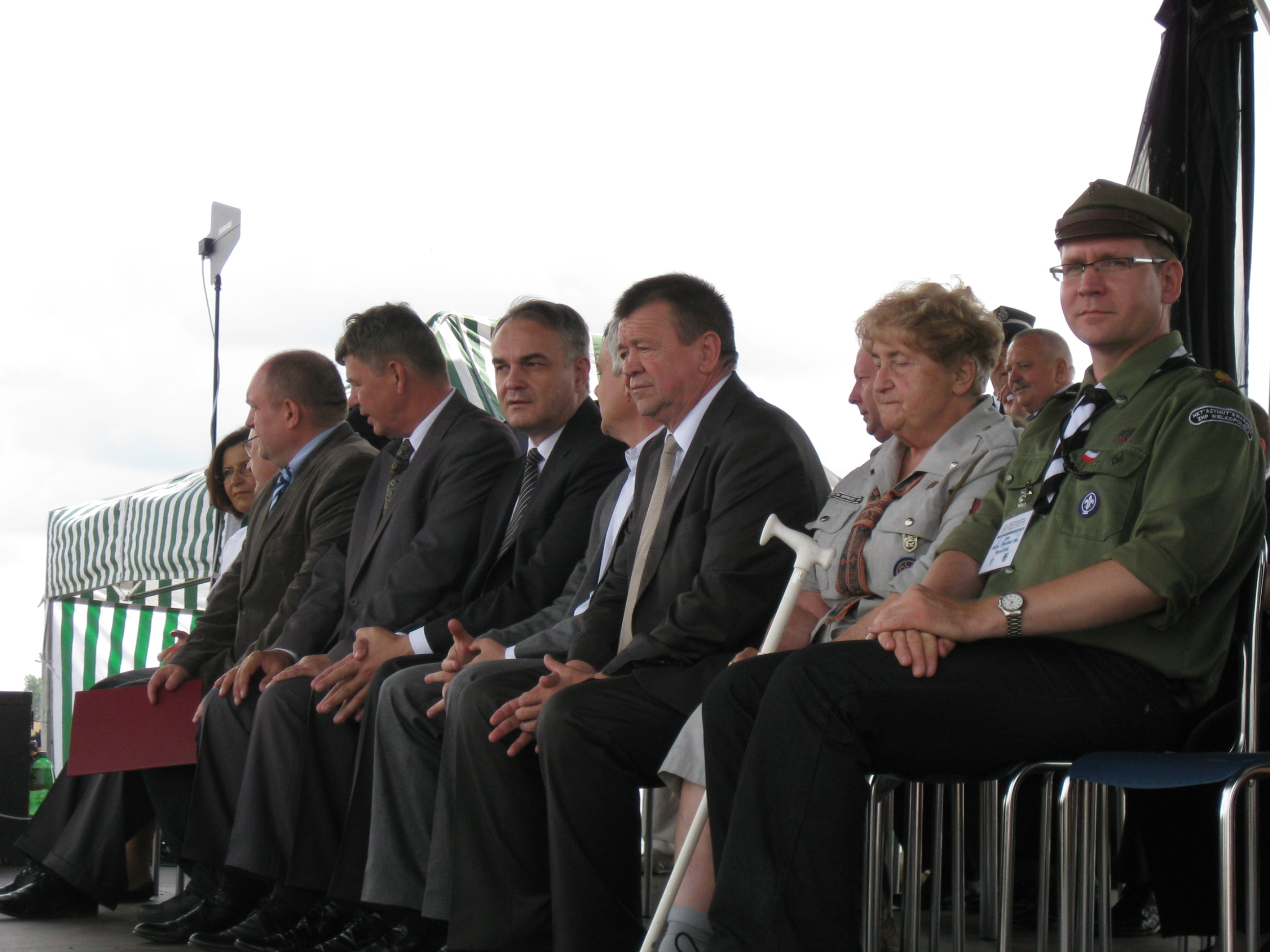 Anniversary of the Battle of Grunwald (2011)